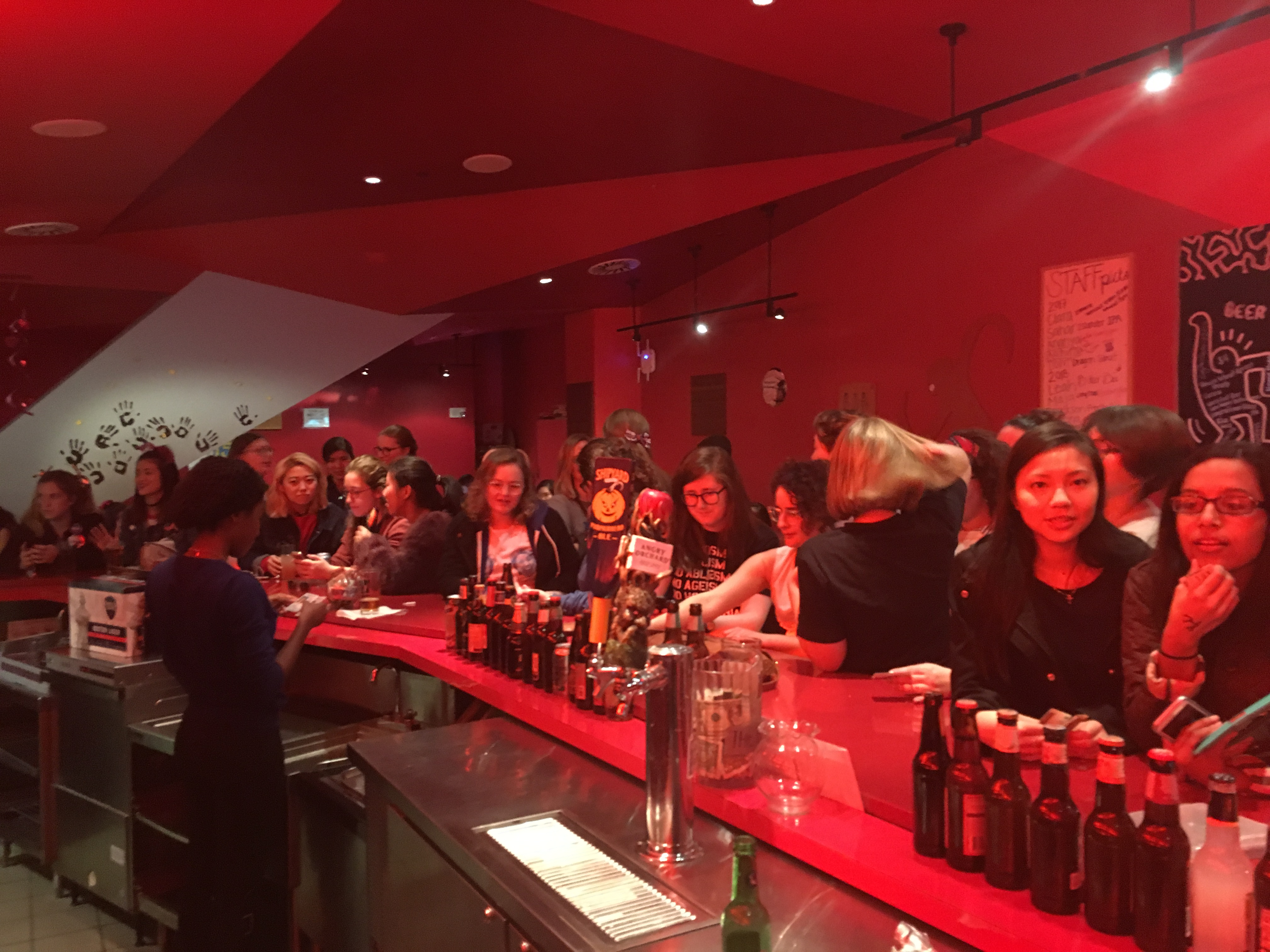 Students line the bar at Punch's Alley, waiting to order drinks and visit with friends.